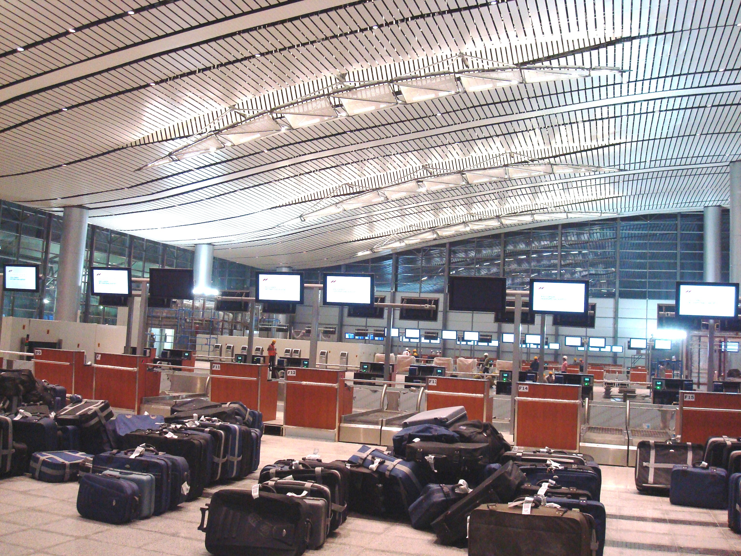 The interiors at the new international airport at shamshabad,hyderabad.